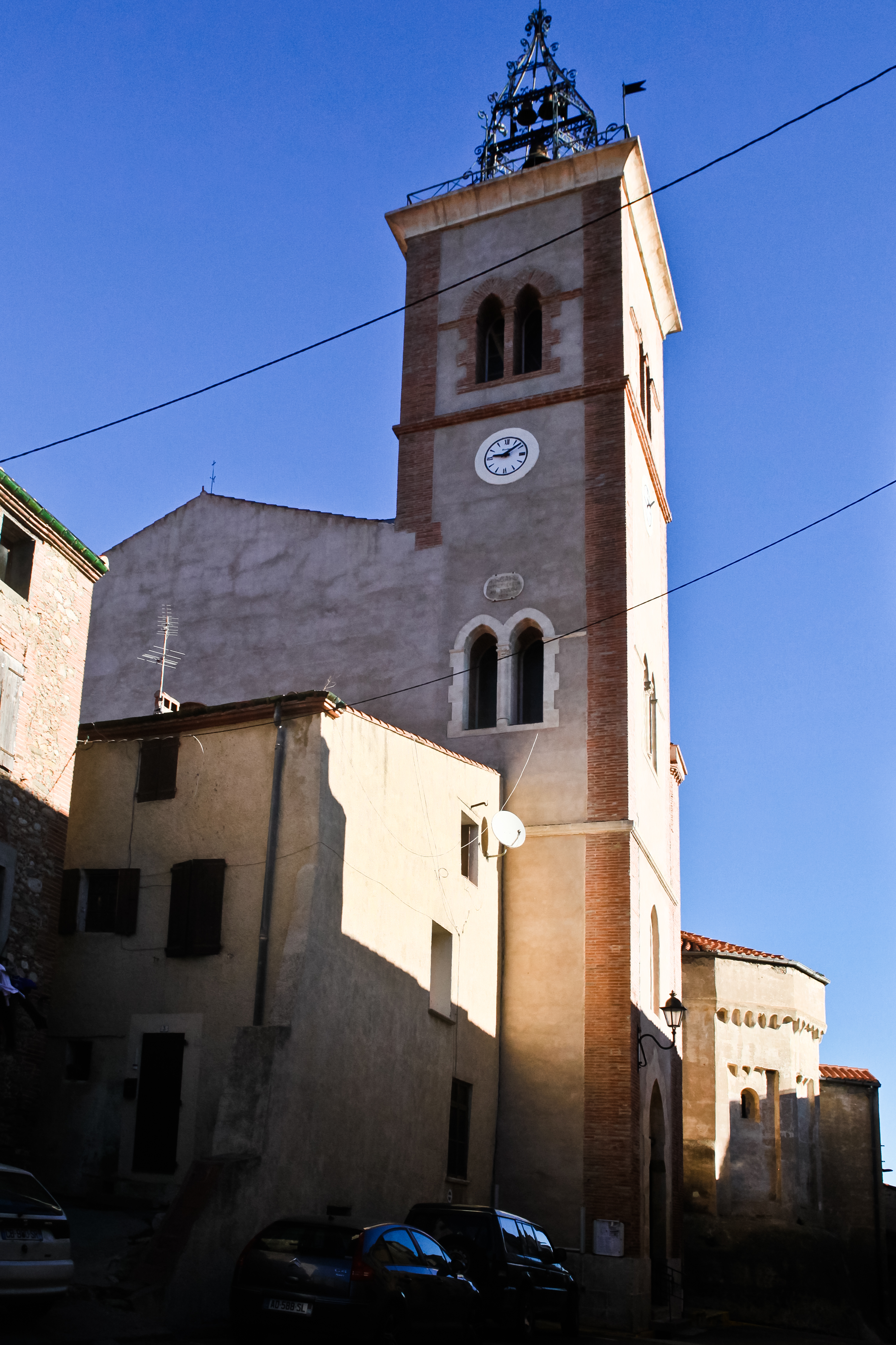 St-André's church, St-Feliu d'avall, France .